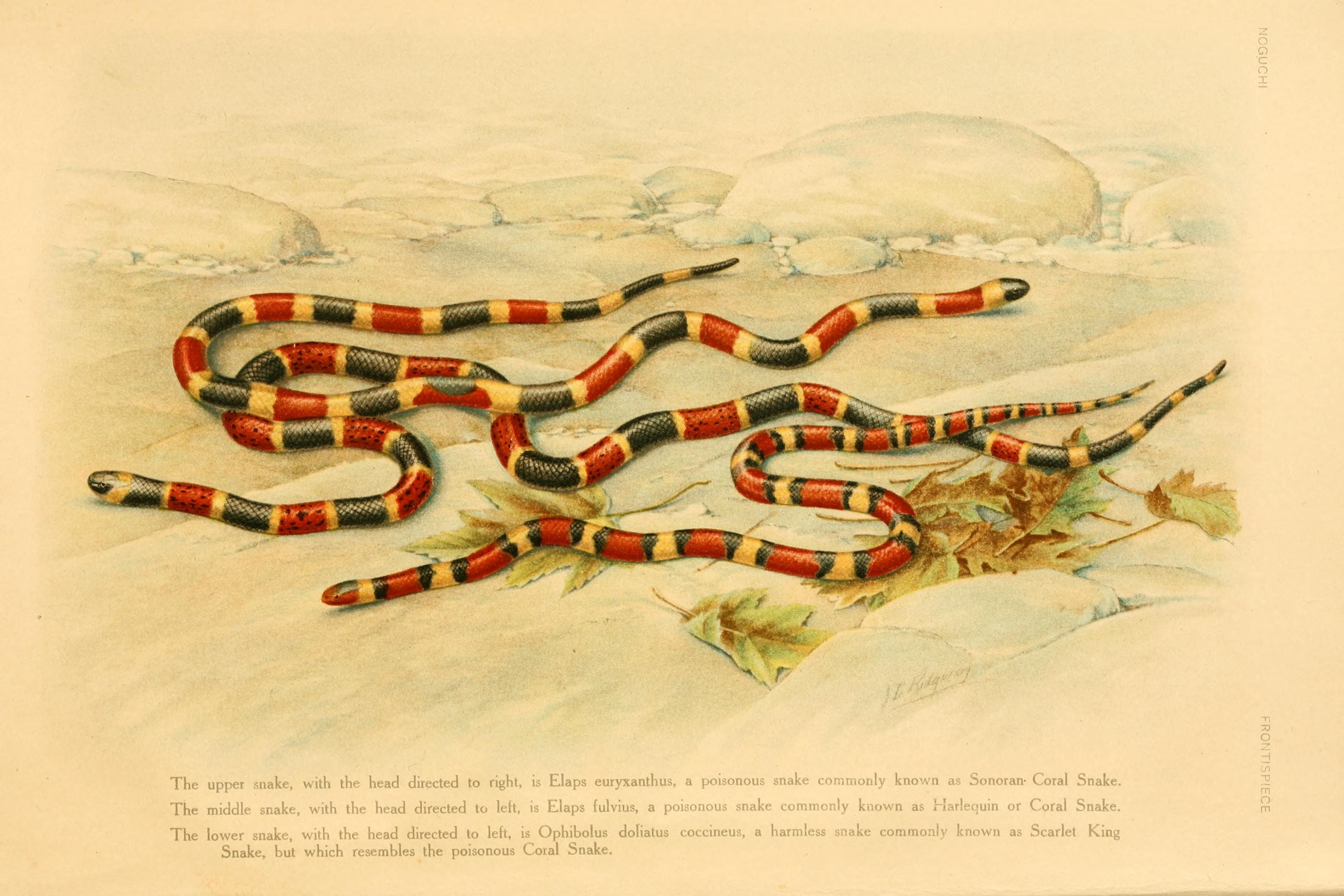 Current names Micruroides euryxanthus, Micrurus fulvius, Lampropeltis elapsoides, illustration published 1909 or before